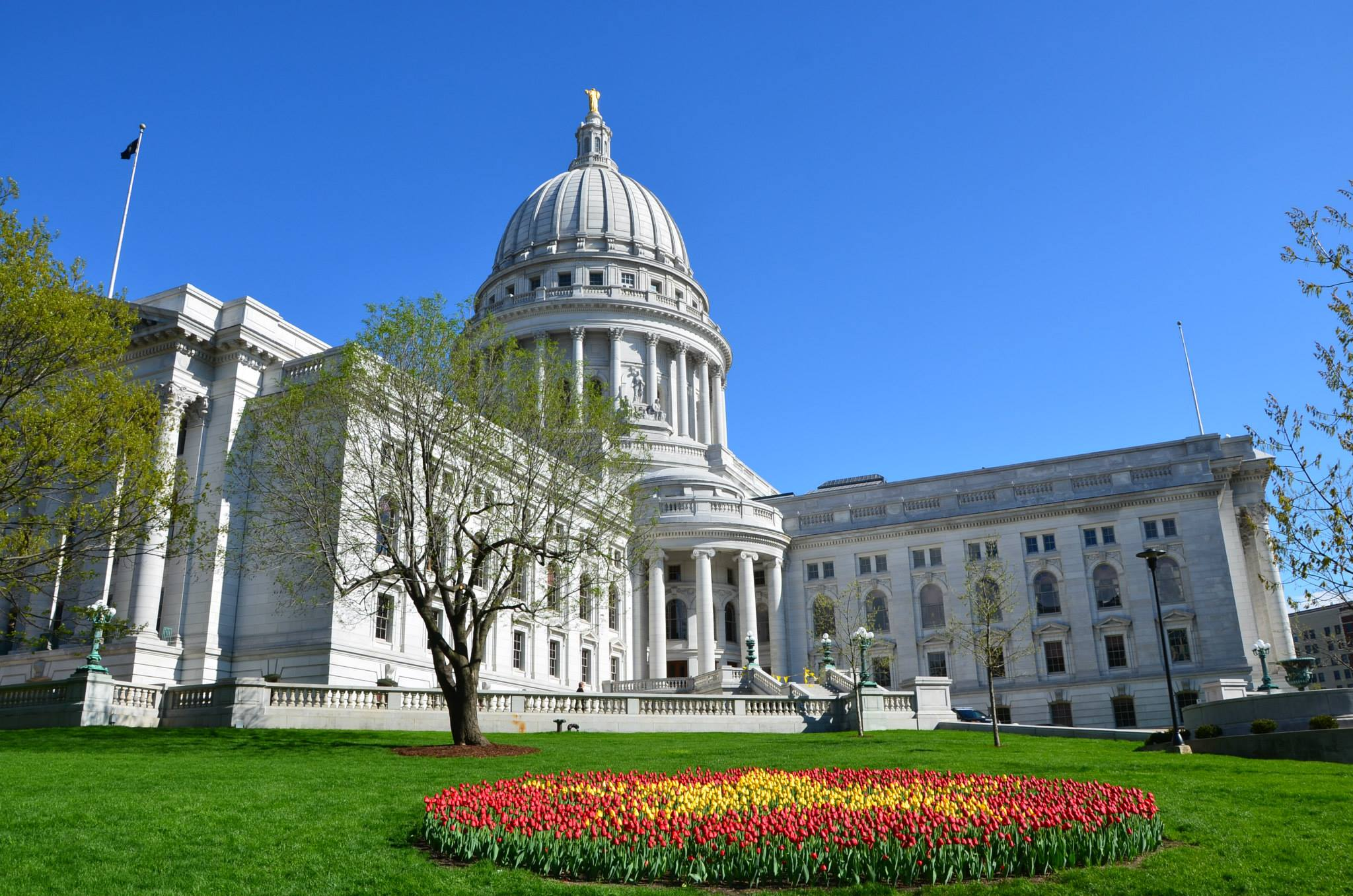 Wisconsin State Capitol building during Tulip Festival